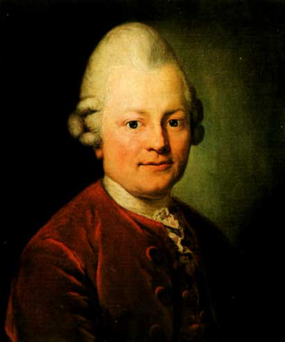 Gotthold Ephraim Lessing (1729-1781)